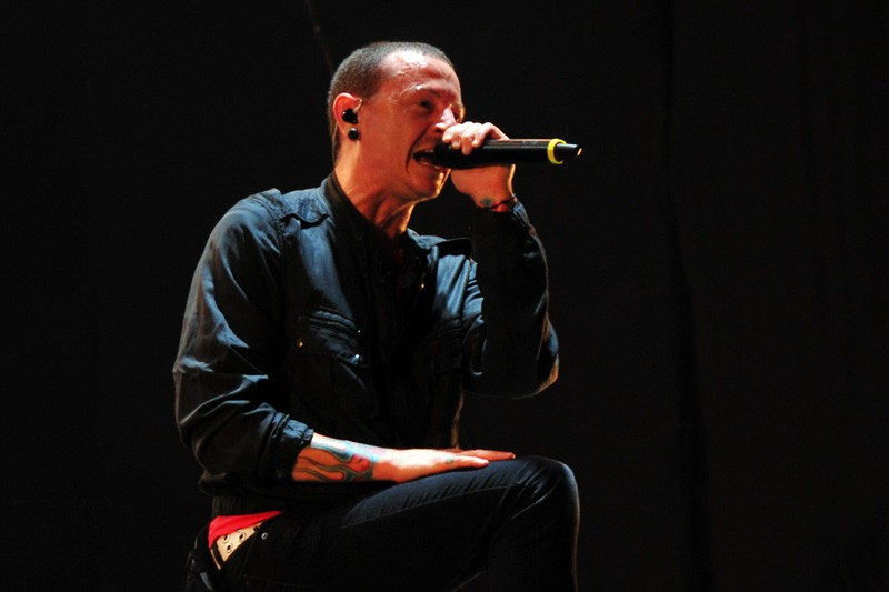 Chester Bennington playing live with Linkin Park on the 2010 A Thousand Suns World Tour